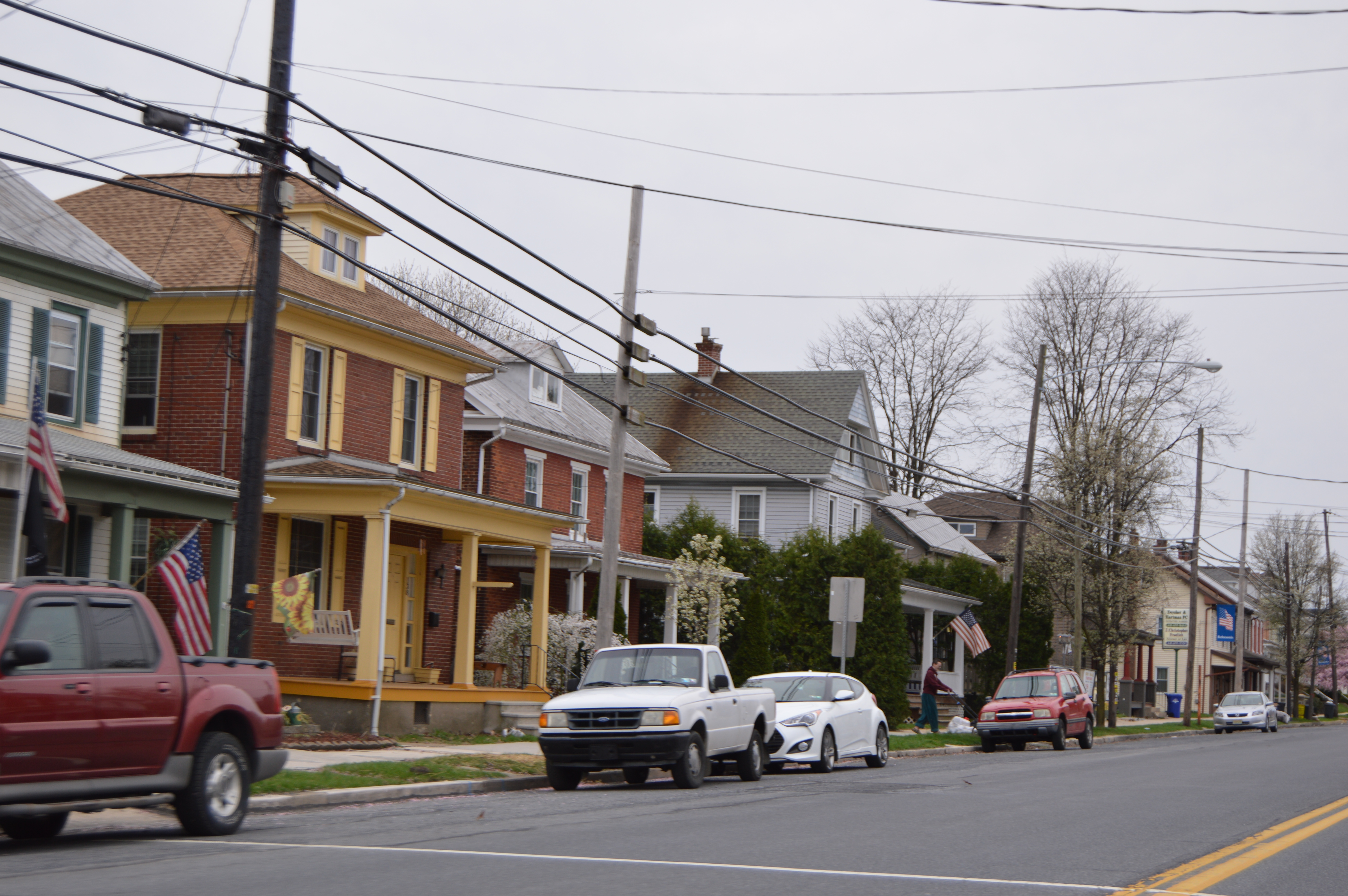 Houses on the southern side of Penn Avenue (U.S. Route 422) west of the Wayne Street intersection in Robesonia, Pennsylvania, United States.